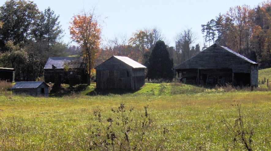 Outbuildings at the Maden Hall Farm near Greeneville, Tennessee, USA. From left to right: springhouse, corn crib, hoghouse, and cantilever barn.